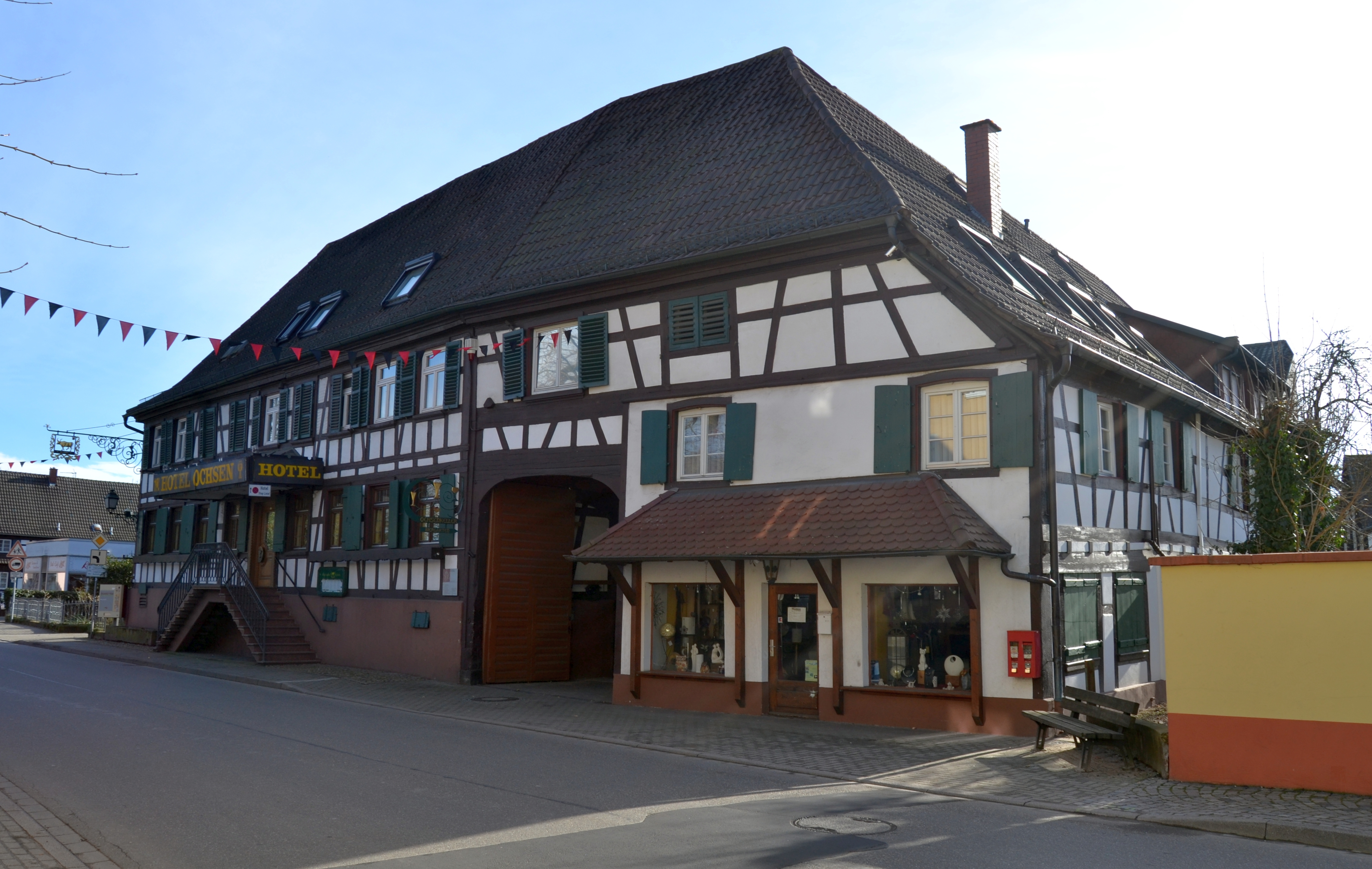 European Parliament 2014 3.–7. February 2014, StrasbourgThis photo has been created within the project "WIKI loves parliaments / European Parliament". Usage and Help If you have any questions concerning this picture or how to use it, feel free to Personality rights warningAlthough this work is freely licensed or in the public domain, the person(s) shown may have rights that legally restrict certain re-uses unless those depicted consent to such uses. In these cases, a model release or other evidence of consent could protect you from infringement claims.